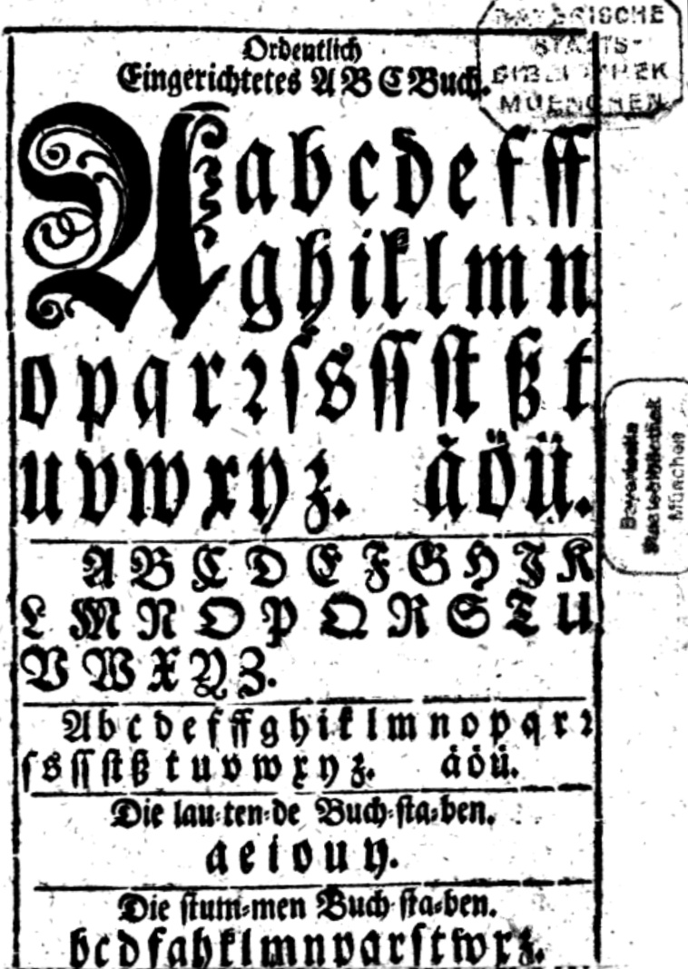 Page from a book stored in the Bayerische Staatsbibliothek, showing the Latin alphabet with letters used for the German language using Fraktur type, printed c. 1750